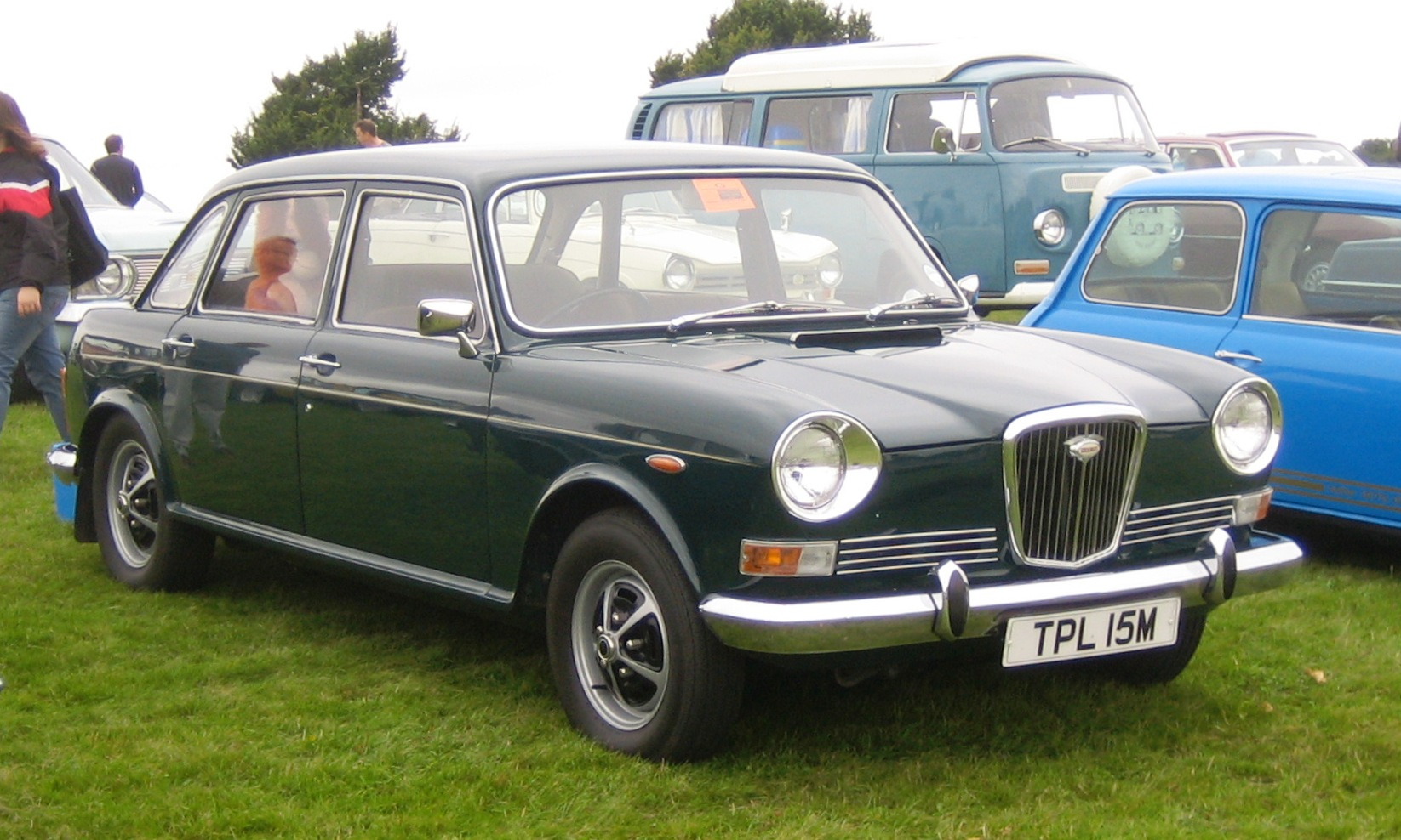 Wolseley Six at Classic Car Show in Hertfordshire